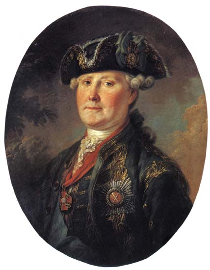 Portrait of Semen Kirilovich Naryshkin (1710-1775), Russian politician